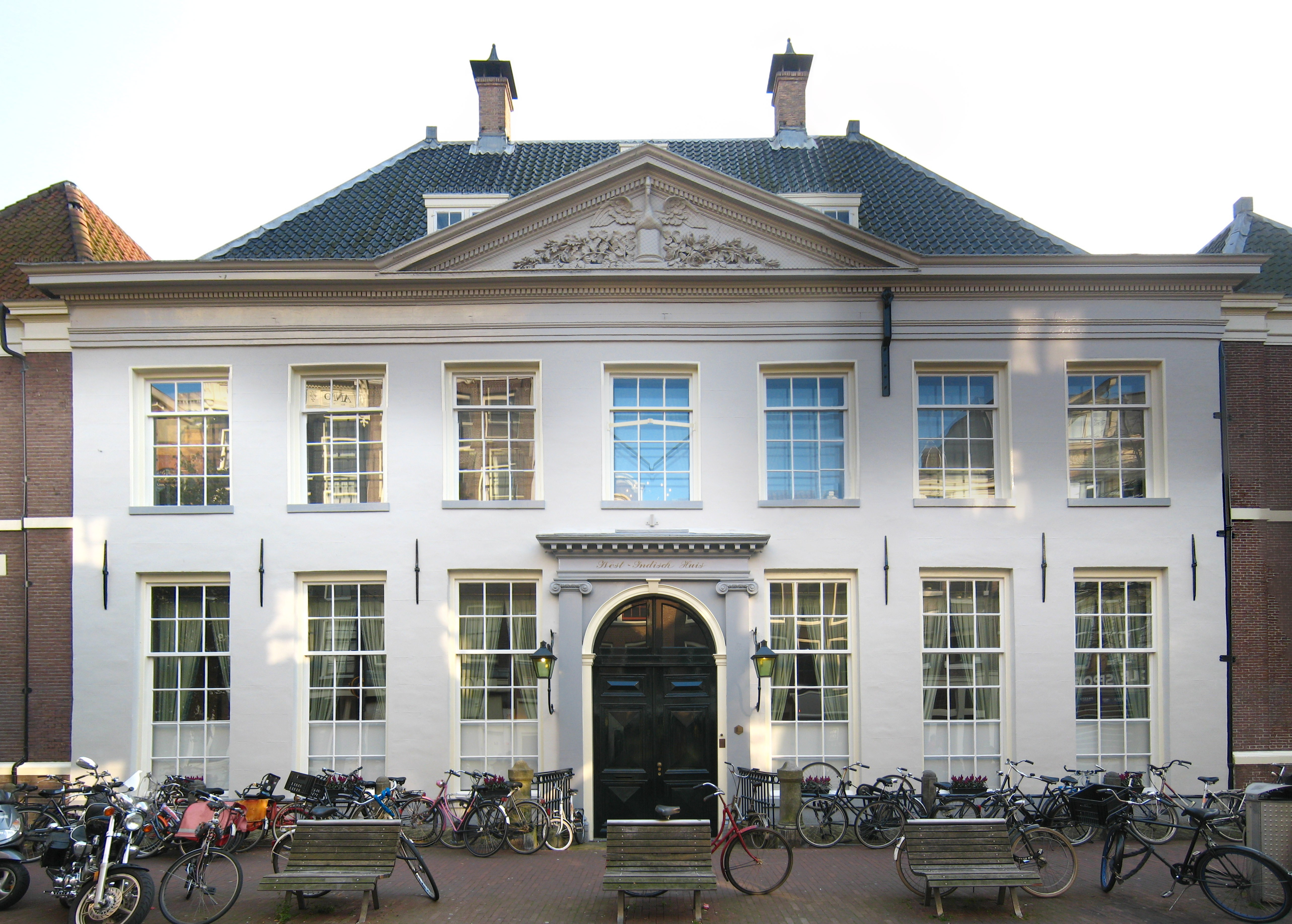 The West India House in Amsterdam, headquarters of the Dutch West India Company from 1623 to 1647.Note: This image was created by stitching five photographs together and unfortunately contains stitching errors.